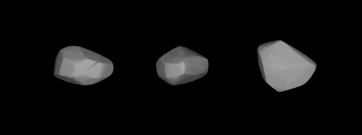 A three-dimensional model of 1263 Varsavia that was computed using light curve inversion techniques.